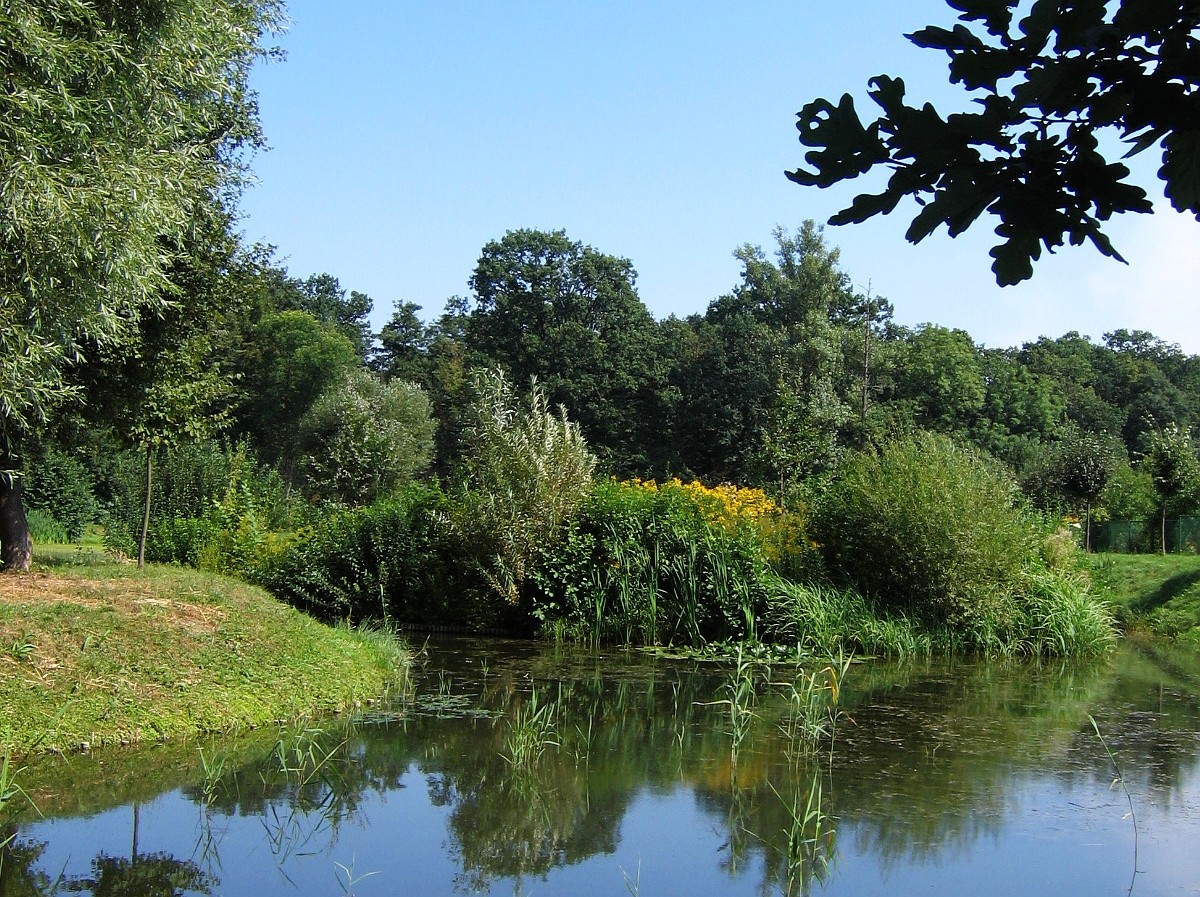 Island on a smaller pond in Sołtysowicki Forest, Wrocław, Poland.